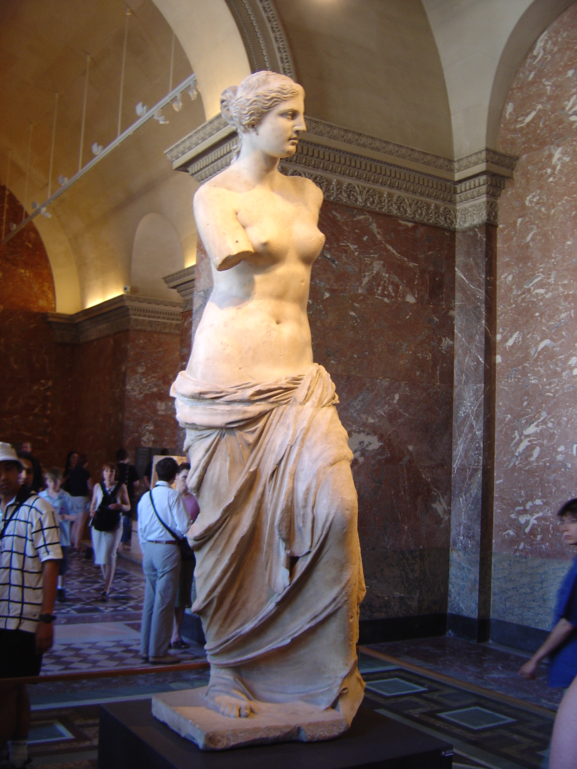 the Venus de Milo in the Louvre, Paris, France